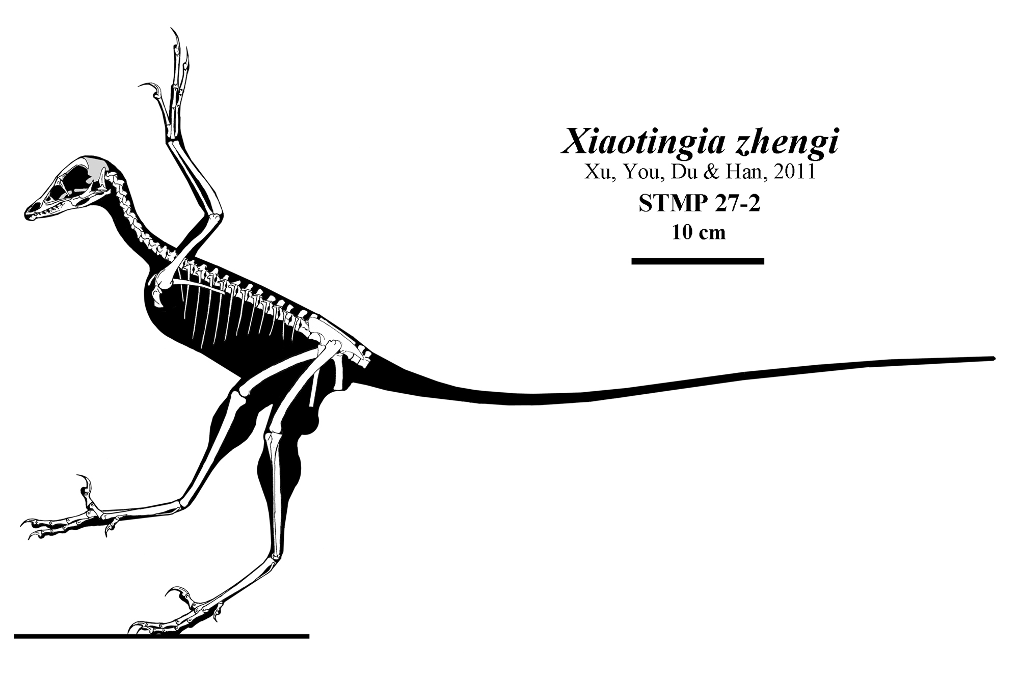 Skeletal reconstruction of Xiaotingia zhengi.